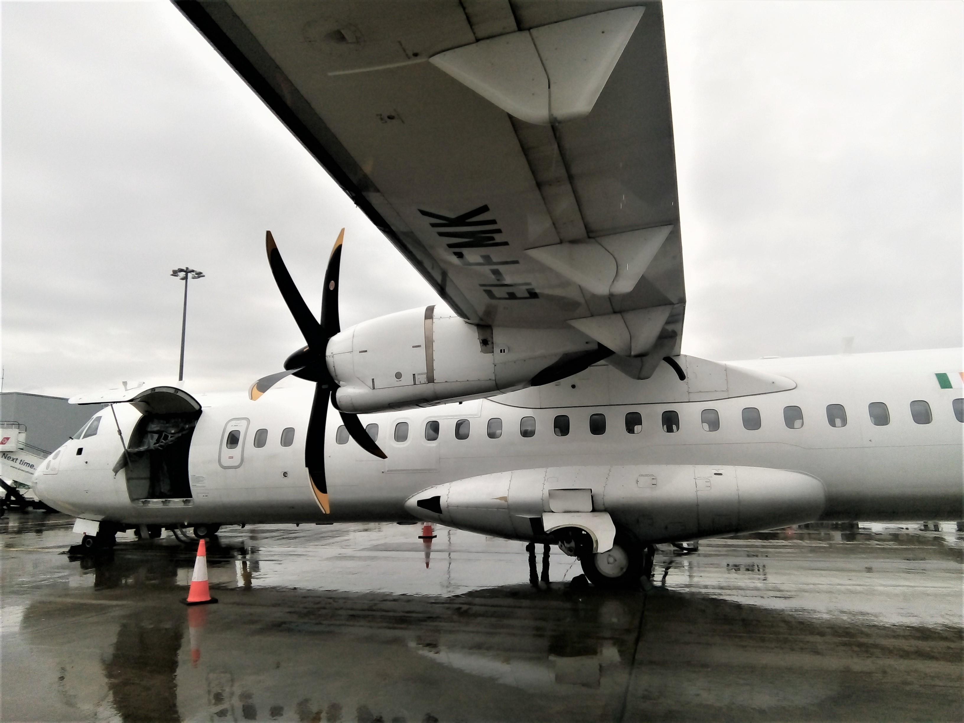 Stobart ATR 72-600